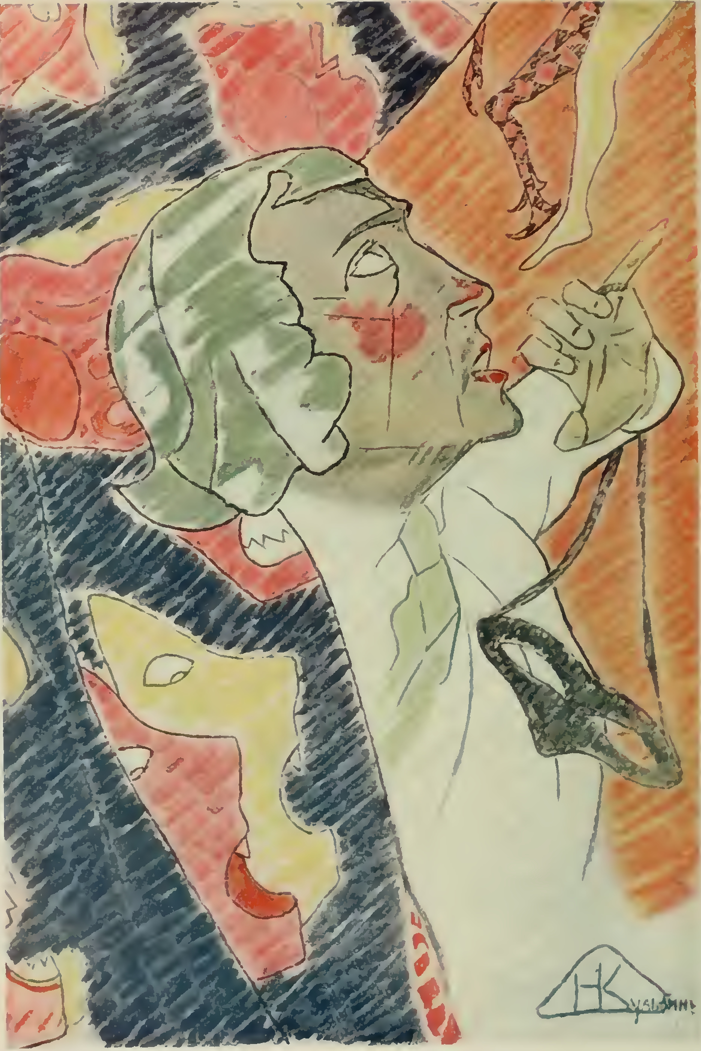 Theater portrait of Nikolai Evreinov by Nikolay Kulbin. First used in "Evreinov, Nikolay TEATR KAK TAKOVOY ("Theater as such"). First Edition St. Petersburg: "Sovremennoye Iskusstvo" (Butkovskaya), [1912]"